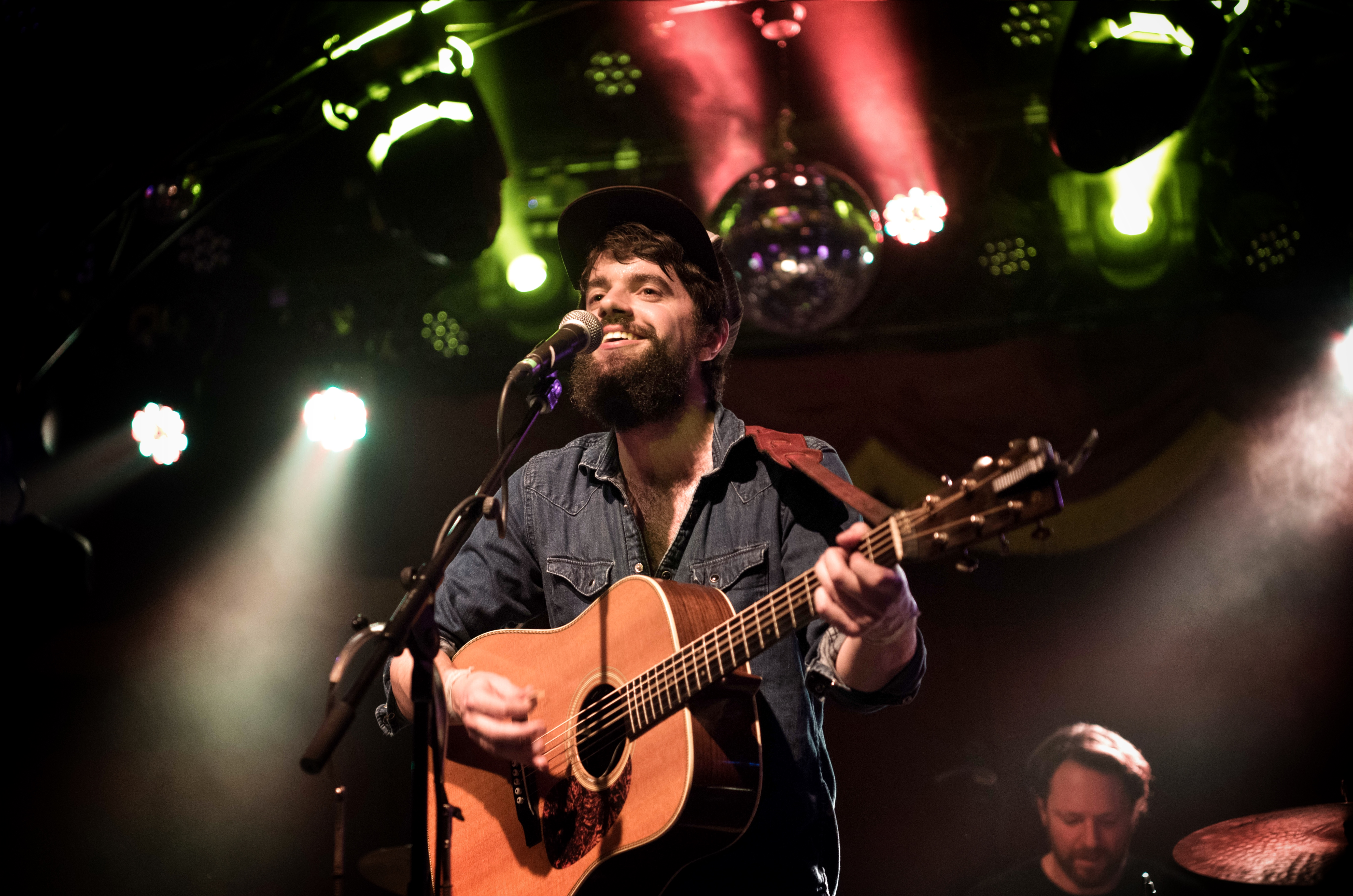 Anthony D'Amato at Brooklyn Bowl January 31, 2016